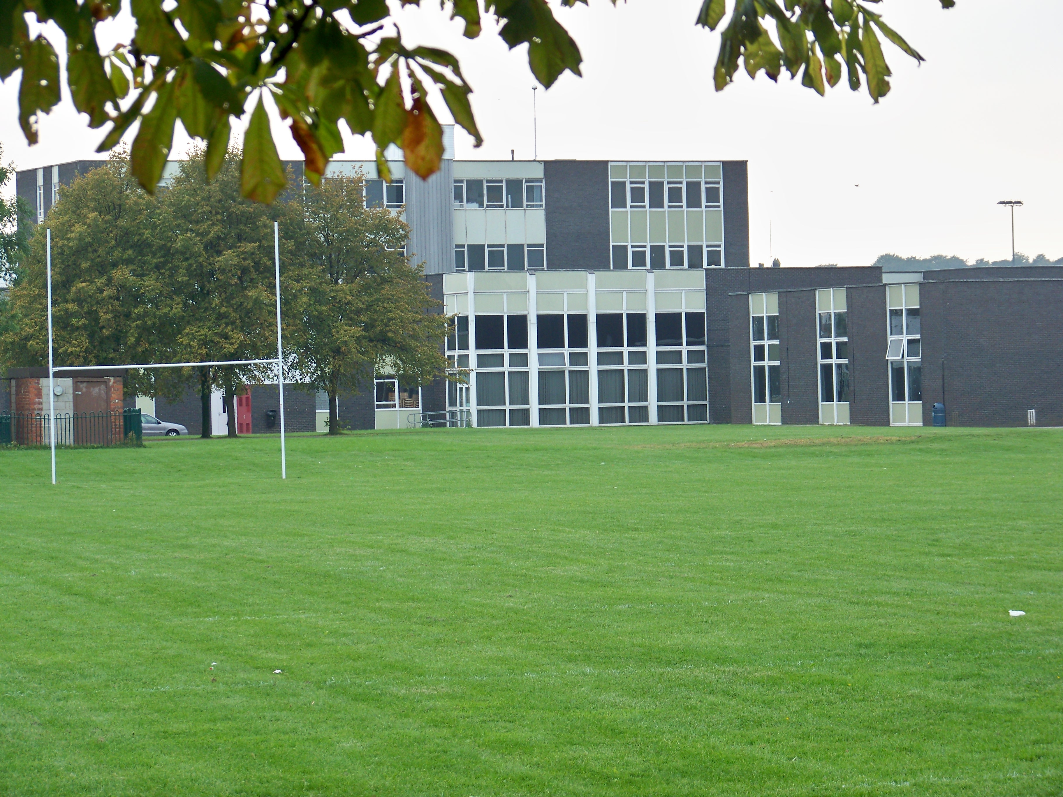 The Wetherby High School buildings taken from the East on Hallfield Lane. Taken on the evening of Saturday 19th September 2009.